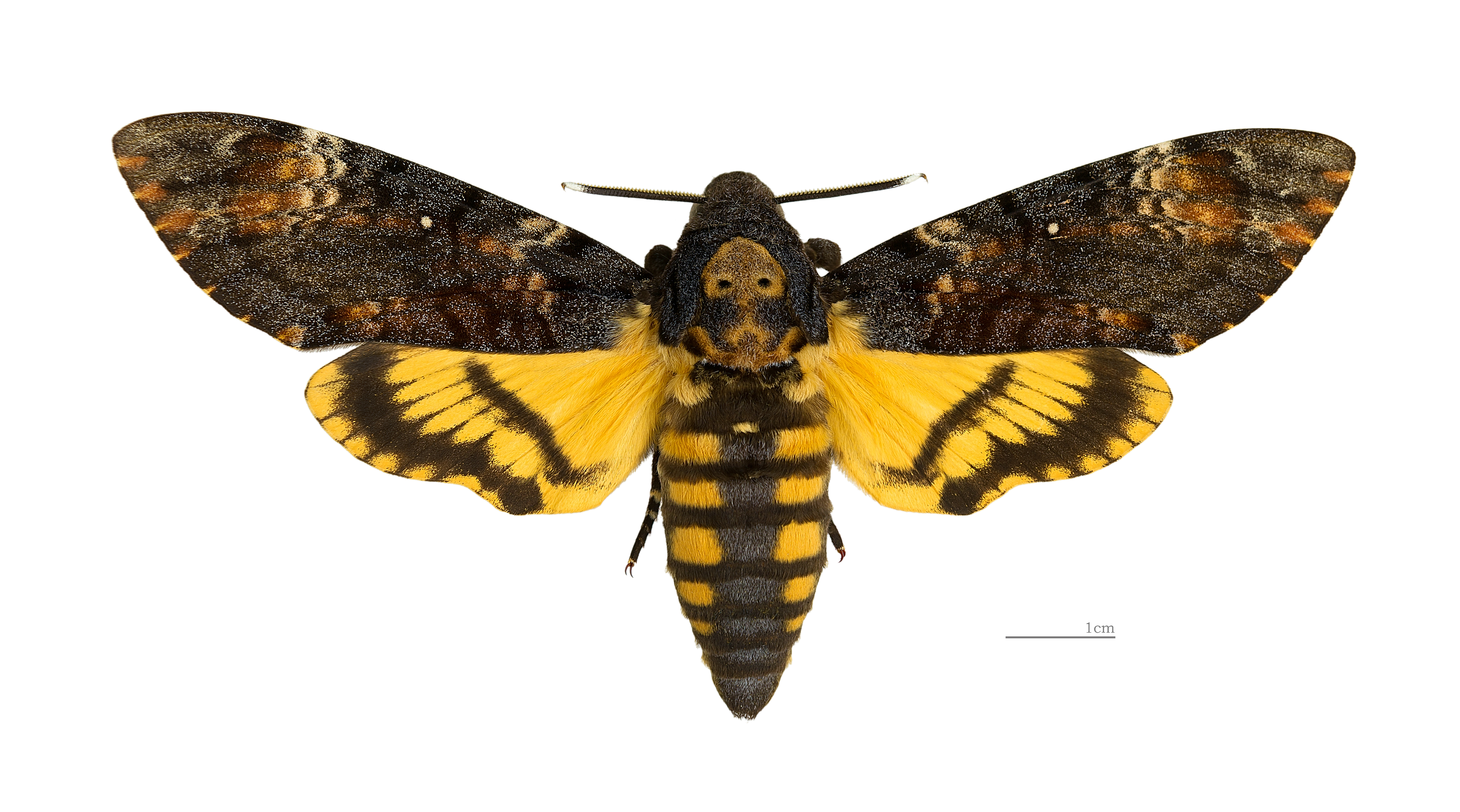 Death's-head Hawk moth - Dorsal side Collection of the Mathematician Laurent Schwartz